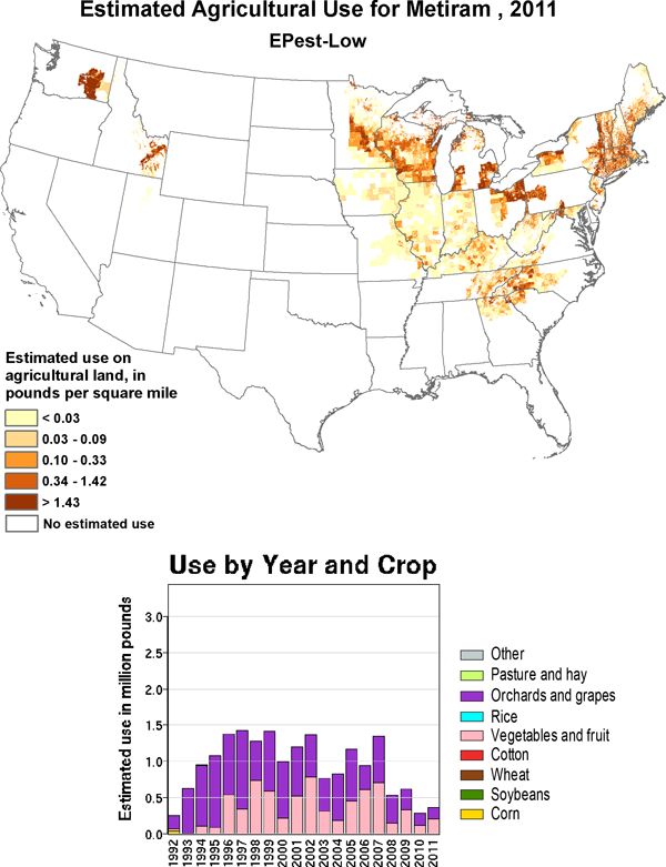 Metiram map of use, USA, 2011 (estimated)